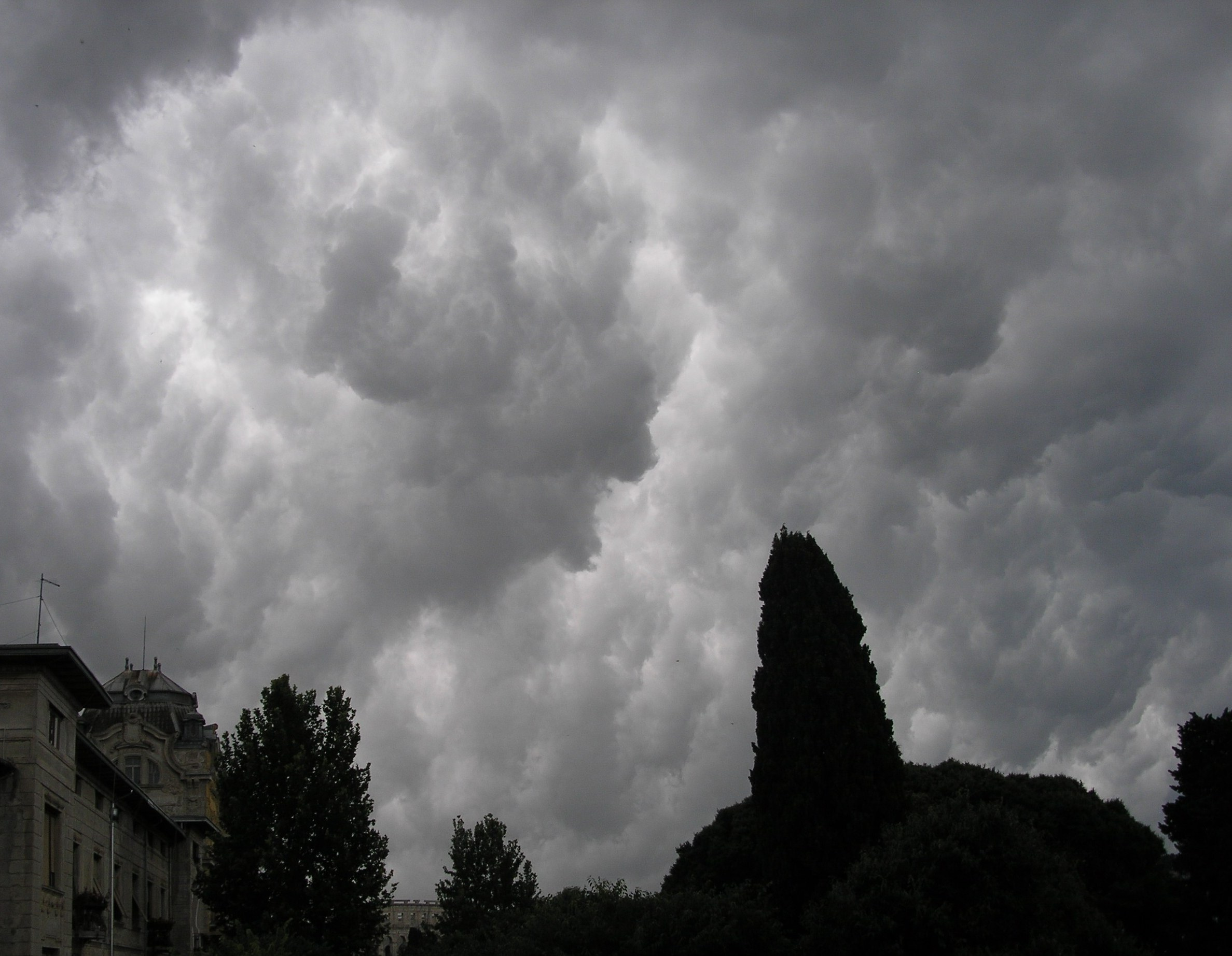 Clouded sky over Pula, Croatia